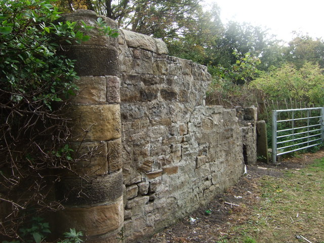 An old railway bridge abutment